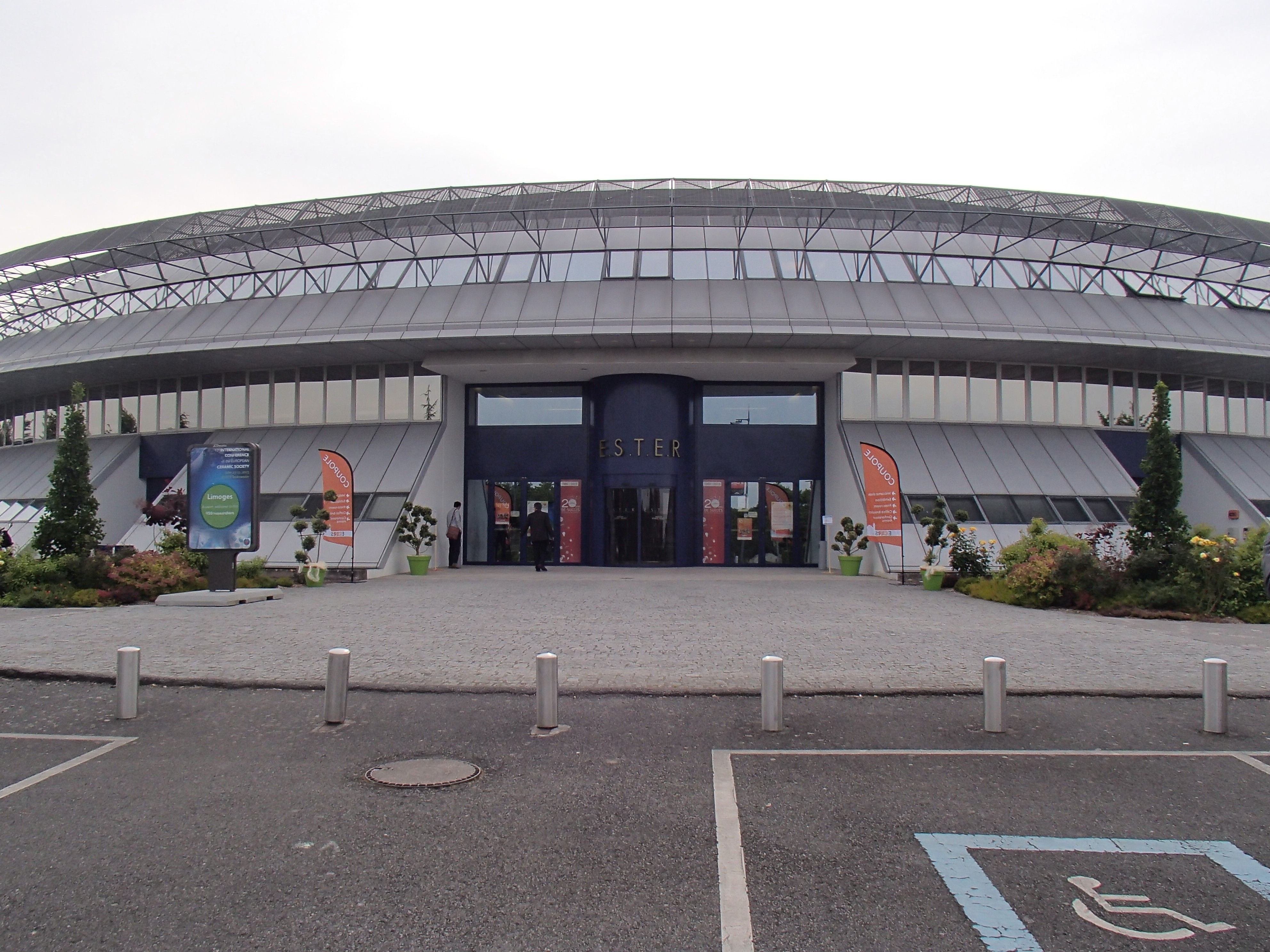 Ester Limoges